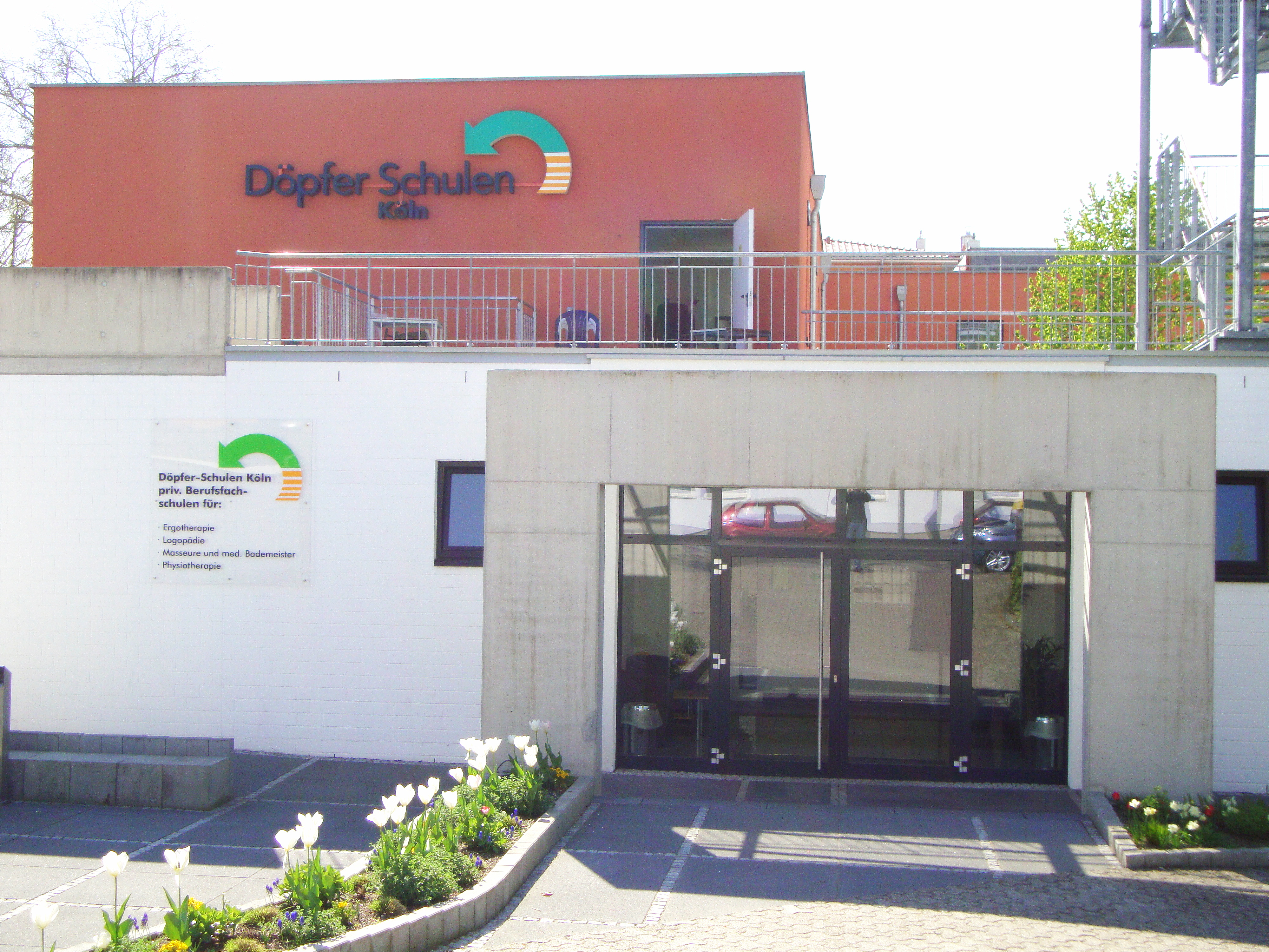 School building Cologne